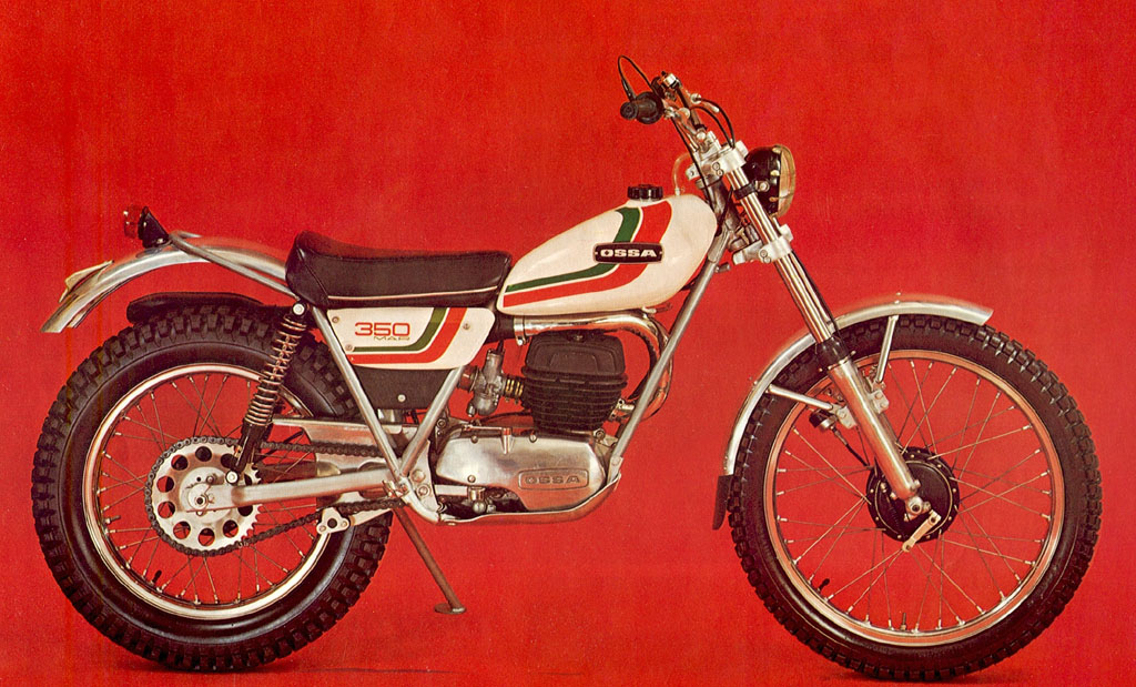 Ossa 350 Mick Andrews Replica by 1975